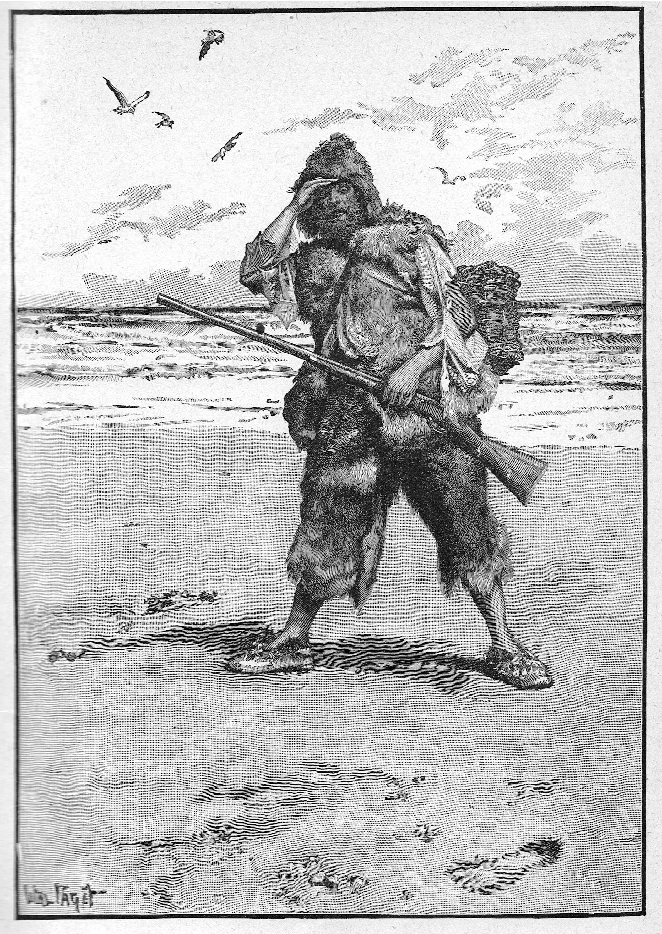 Page 125 of the Czech edition 1894 (found the footprint of the cannibals)